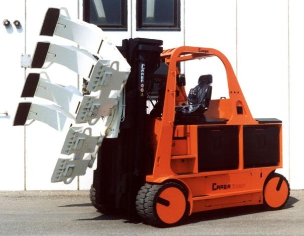 A forklift with clamp